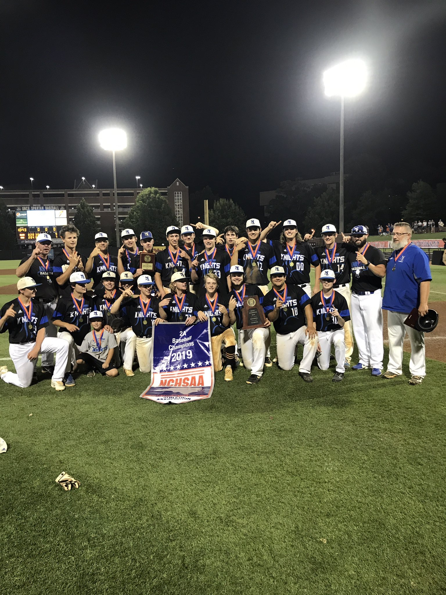 STATE 2A BASEBALL TITLE SERIES: N. Lincoln rallies, sweeps Randleman for first championship